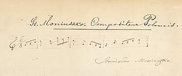 MONIUSZKO, Stanislaw (1819-1872). Autograph Music Quotation Signed of four bars in the treble clef, 1 page 8vo (oblong) insribed in ink in another hand.